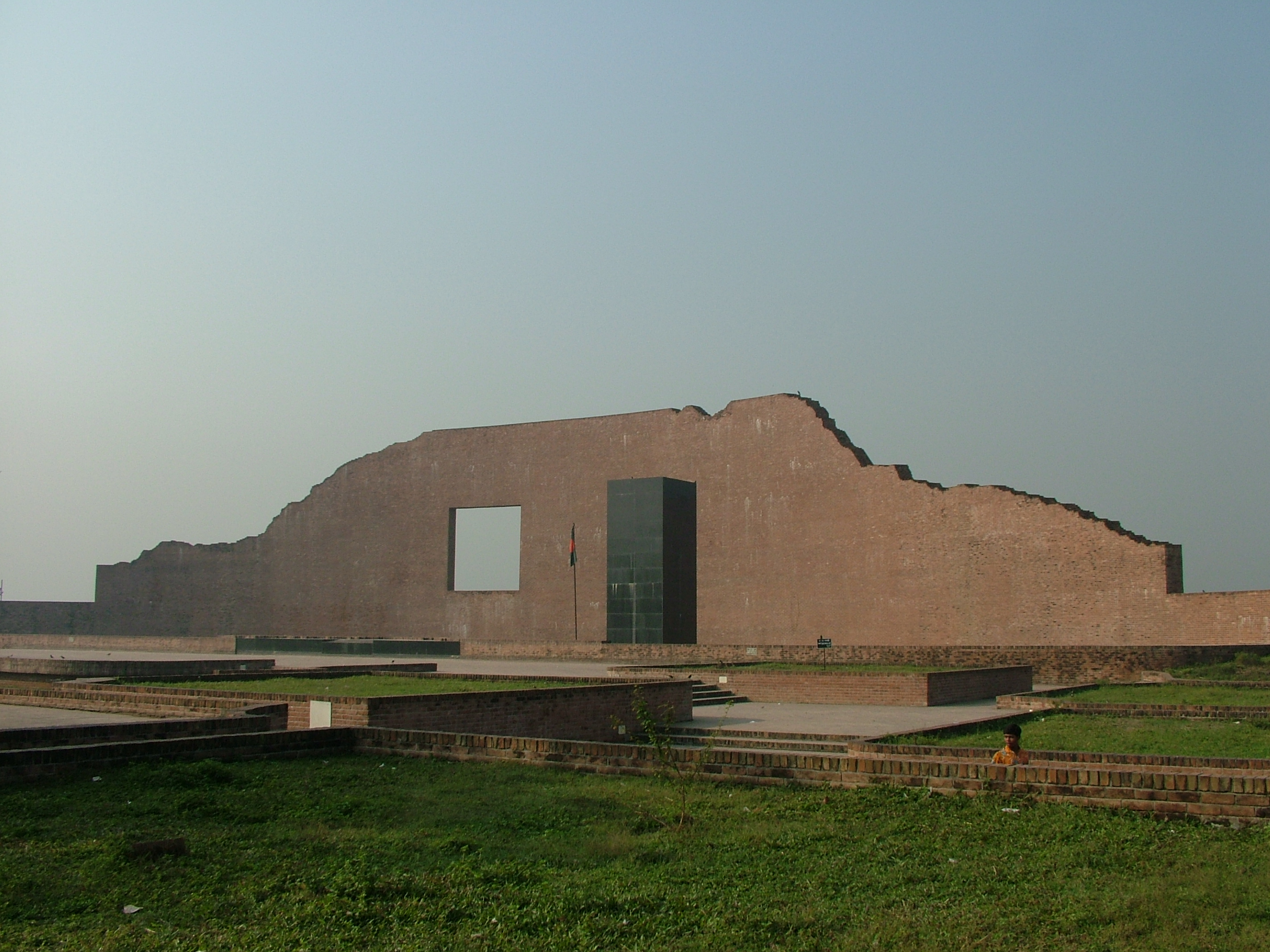 A partial view of the martyr's grave-yard, located at Rayer Bazar.